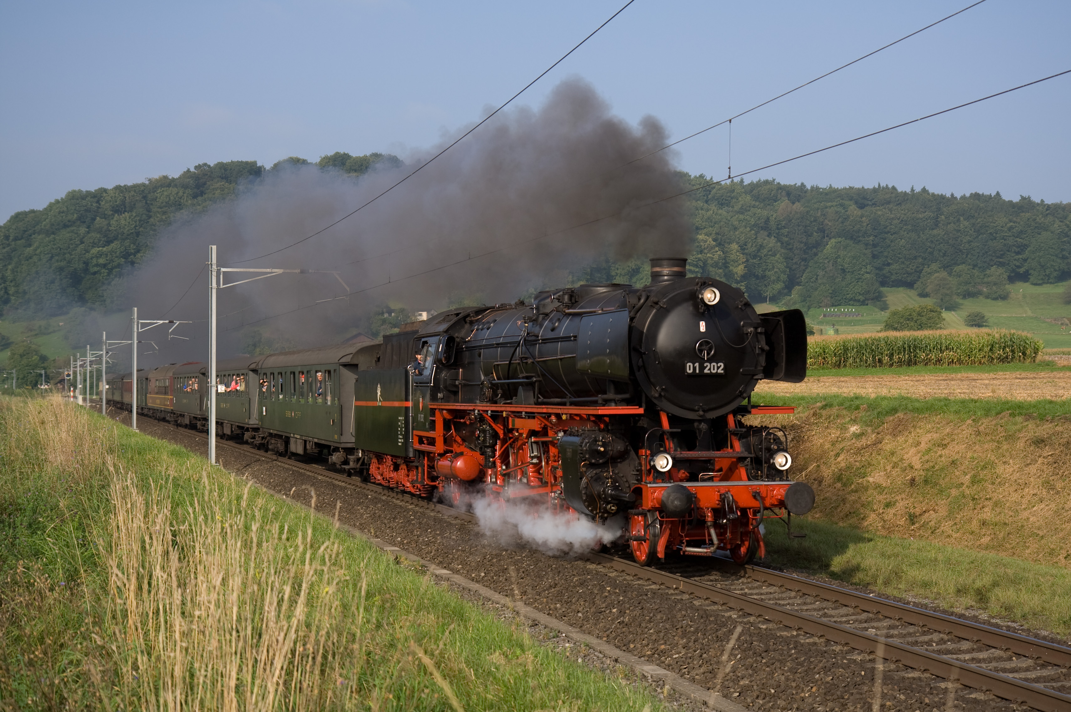 The German steam locomotive 01 202, owned and operated by the Verein Pacific 01 202, is pulling the Nostalgie-Rhein-Express towards Otelfingen (near Zurich)